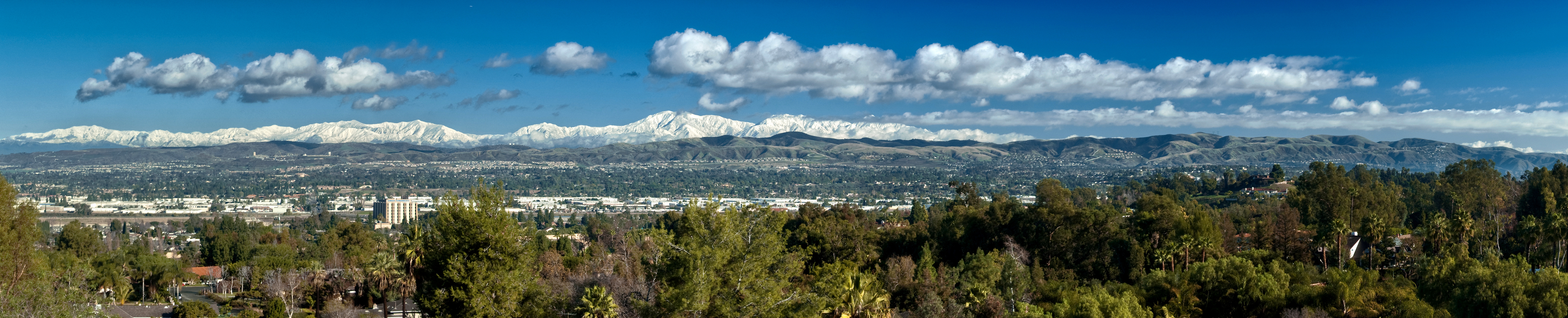 Panorama of portions of the cities of Anaheim, Placentia, and Yorba Linda in California, United States